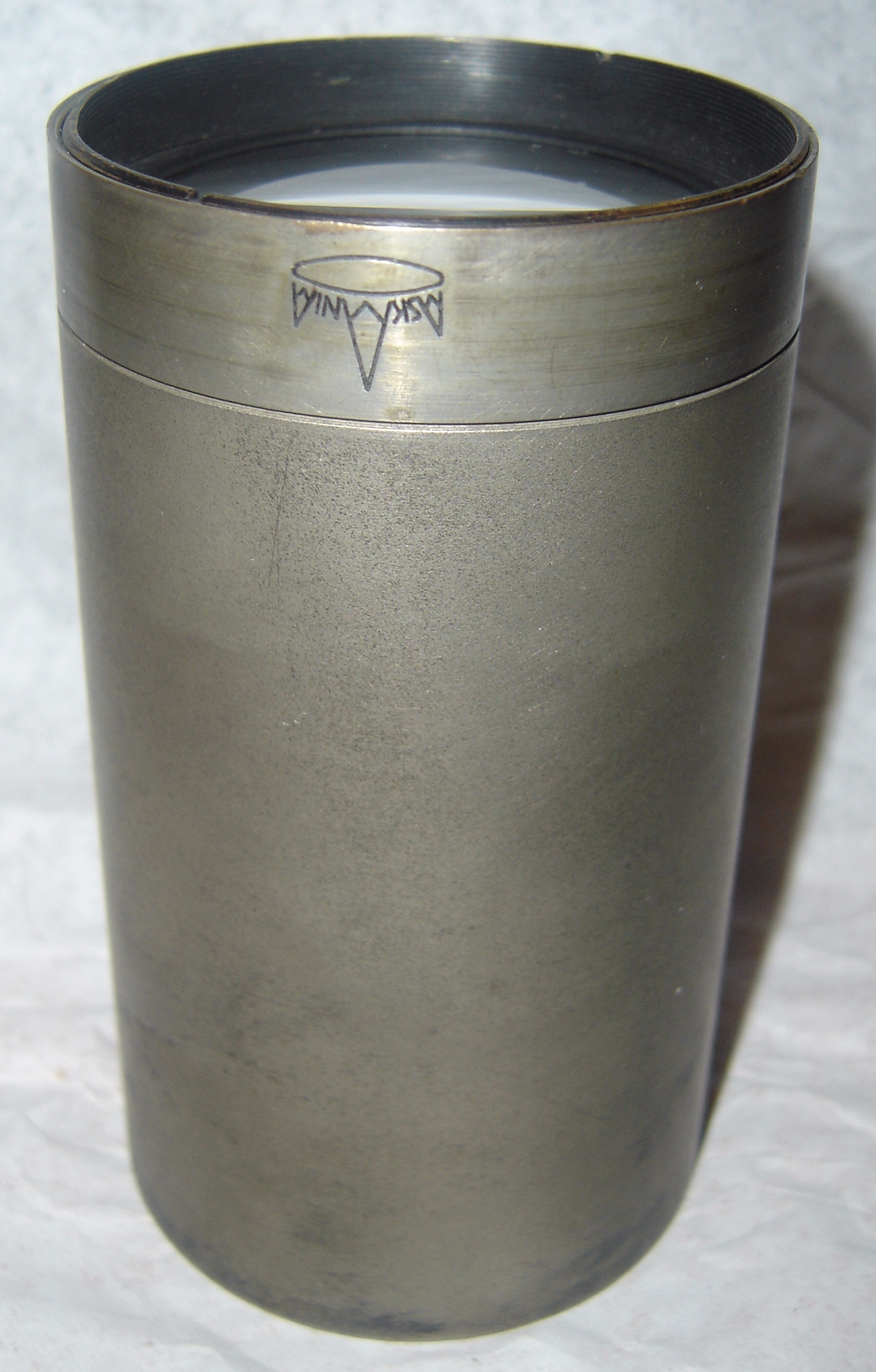 Askania was a German producer of optical devices including cinema projectors and thier projection objectives. This is an Askania Diastar projection objective for 35mm film. The focal length is given as 400 mm. The serial number is 496065.